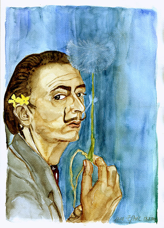 S. Dali with Dandaline, watercolour